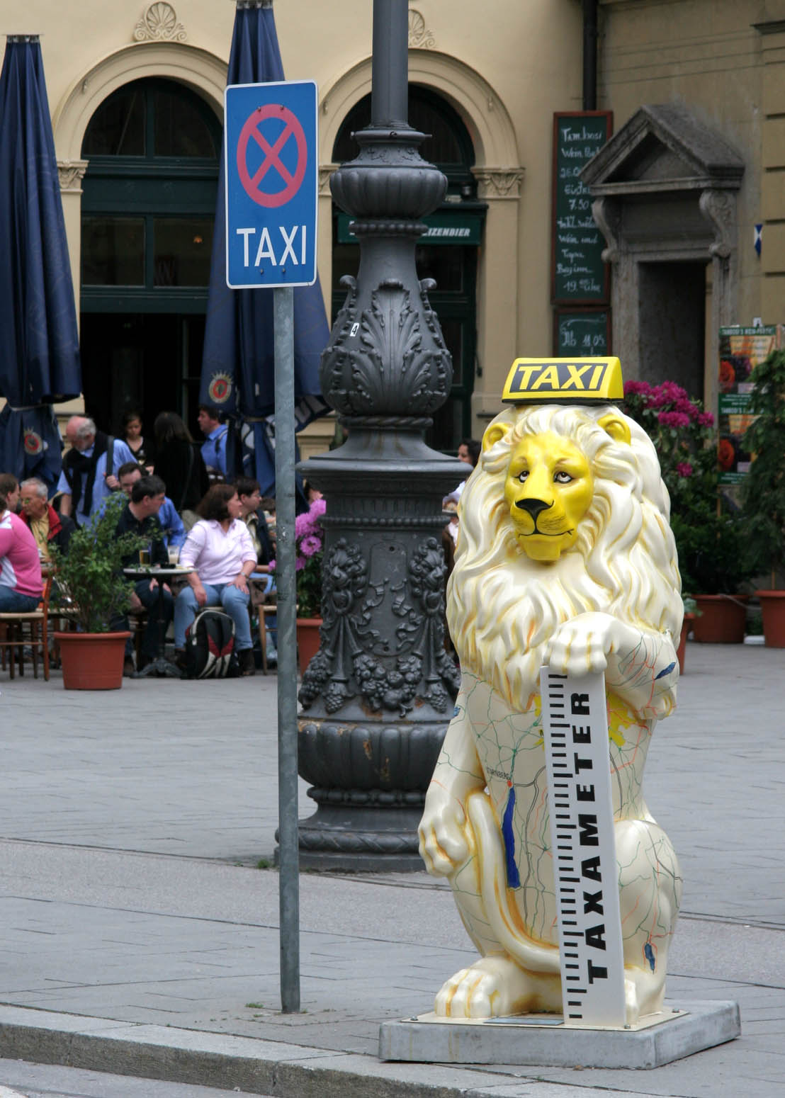 Taxi Lion of Munich's Löwenparade